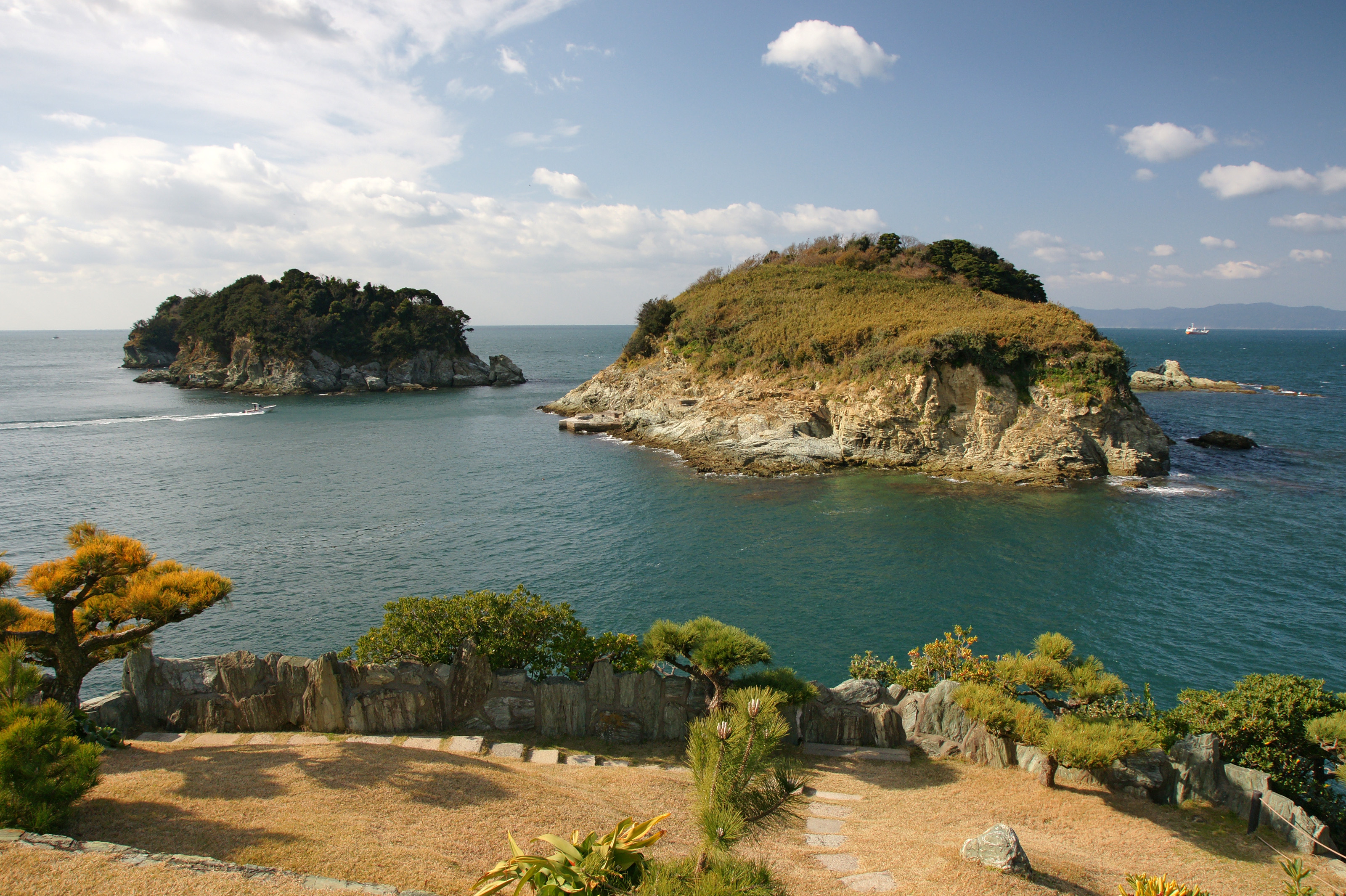 Bandoko Garden, Wakayama, Wakayama prefecture, Japan